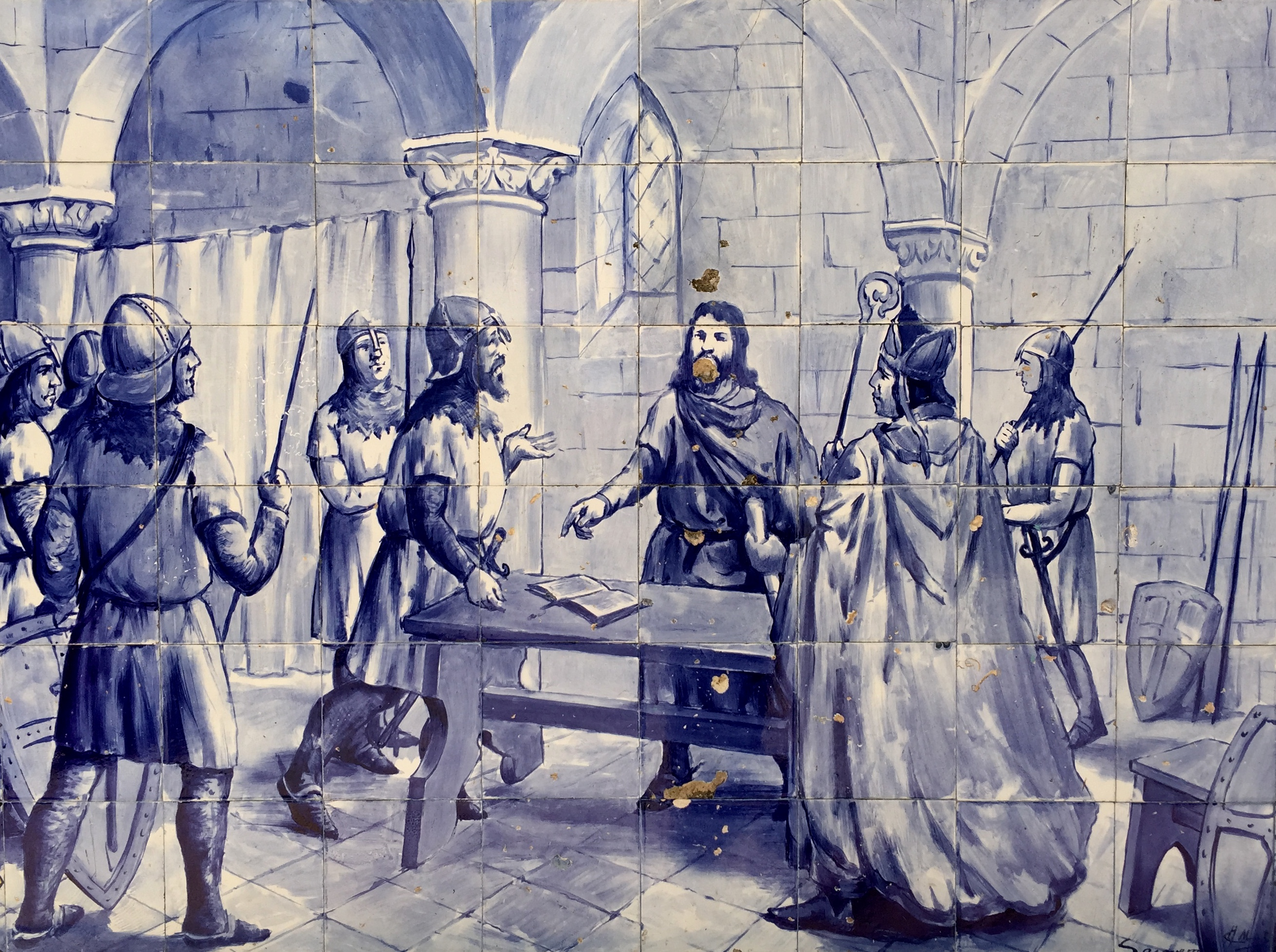 Establishment of the Portuguese Nationality (Treaty of Zamora). Tiles on the Jardim 1.º de Dezembro, Portimão, Portugal.